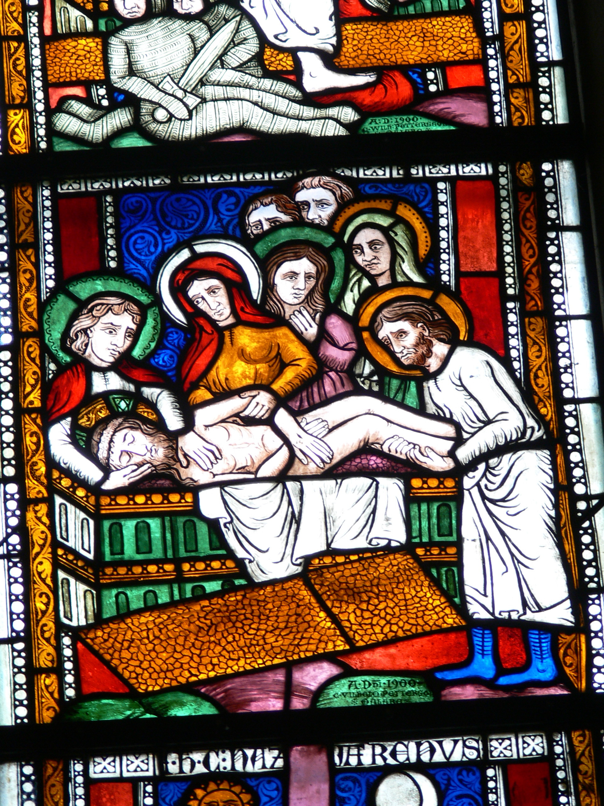 Dalhem Kyrka in Gotland. Stained glass windows: Entombement of Christ, dated and named in two places 1900, C. Vilhelm Petterson